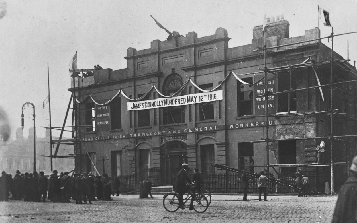 Banner on Liberty Hall 12 May 1916 raised by Jennie Shanahan, Rosie Hackett, Helena Malony and Brigid Davis.